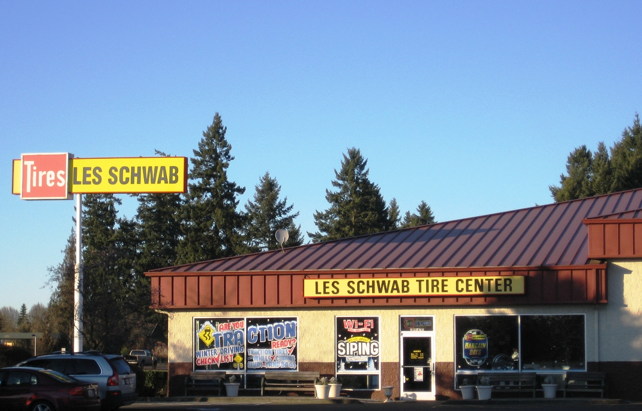 Wilsonville location of Les Schwab Tire Centers